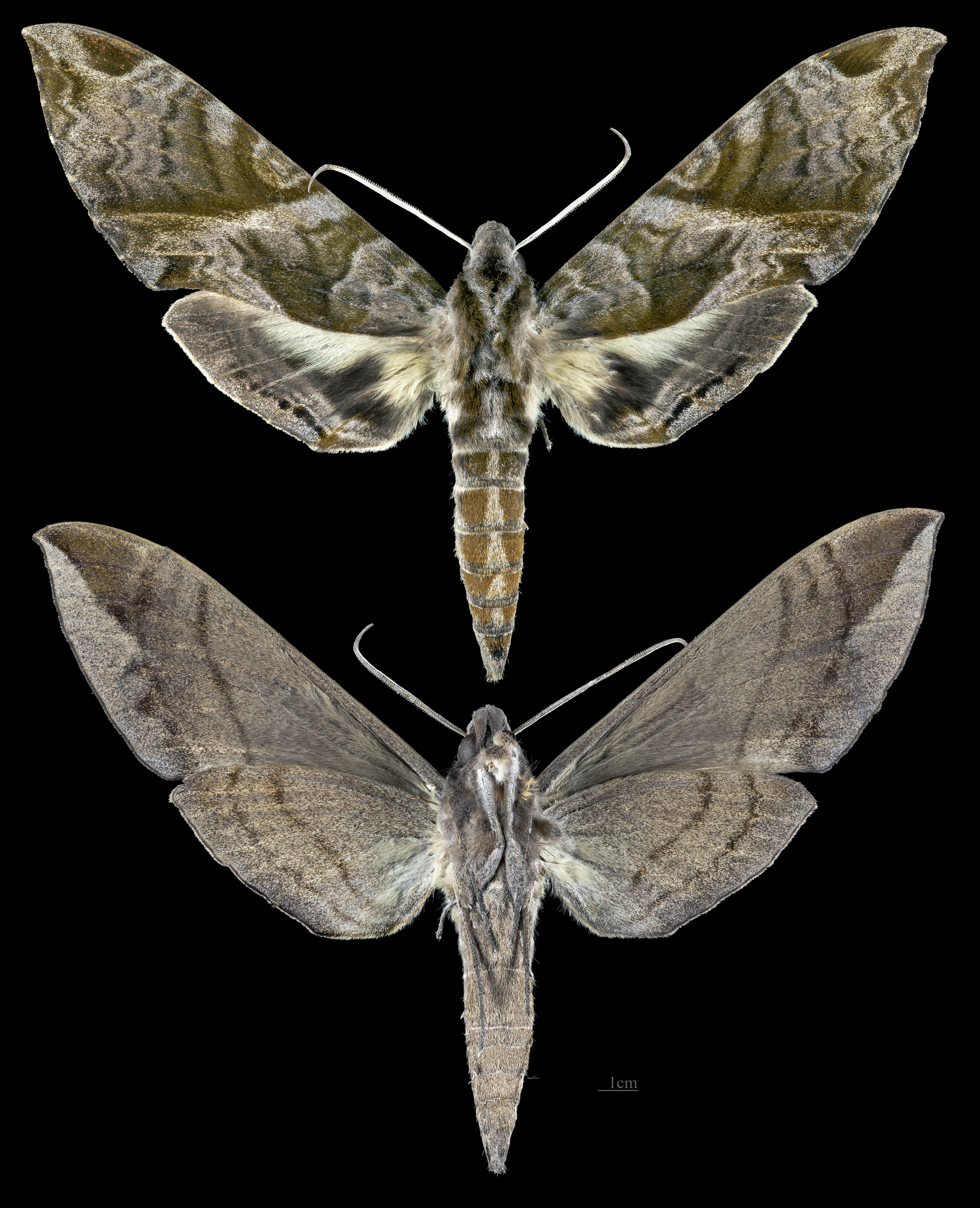 Eumorpha cissi - Two views of same specimen Collection of the Mathematician Laurent Schwartz